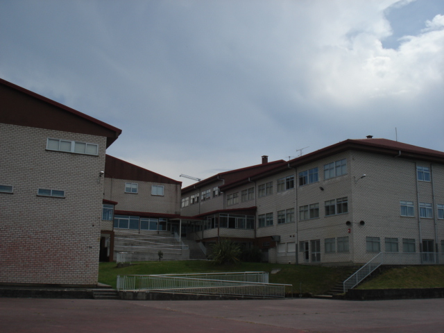 Photo of IES Manuel Chamoso Lamas